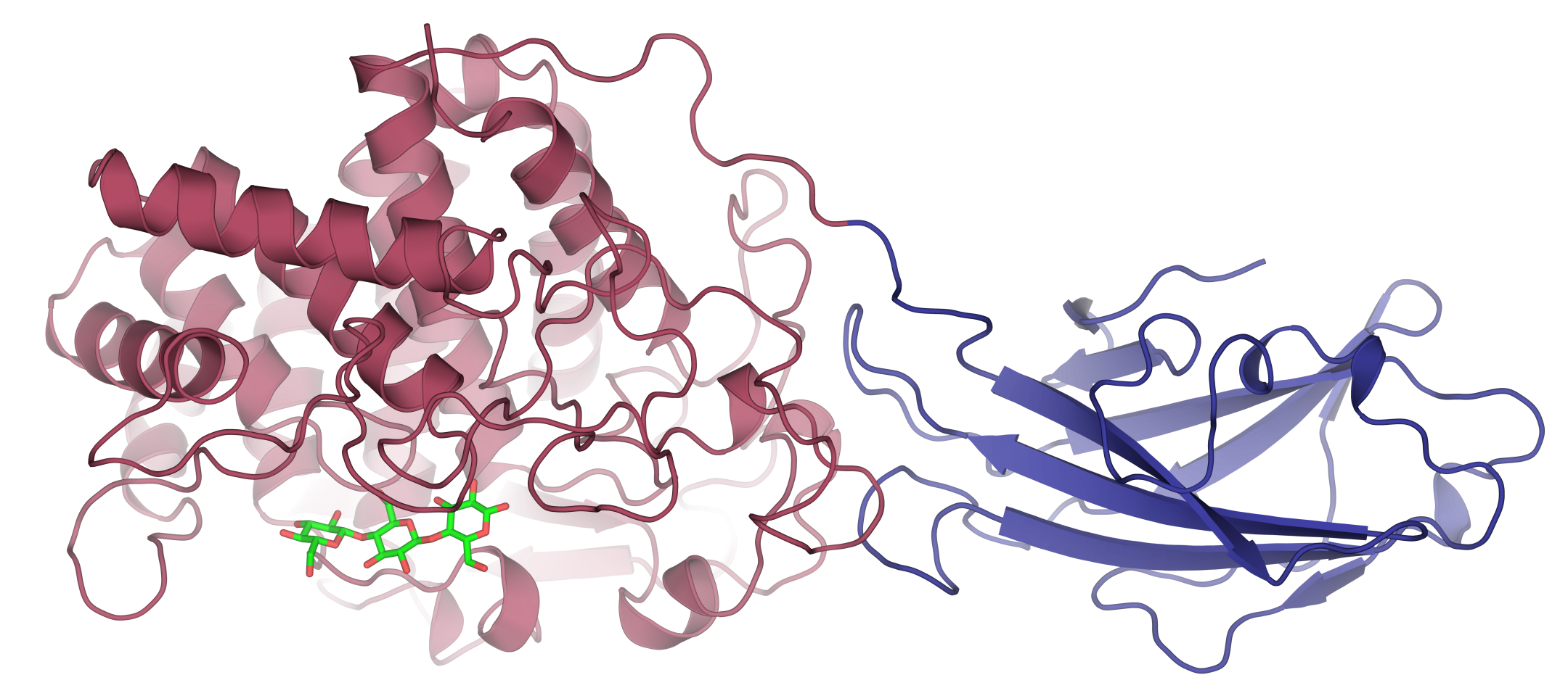 Structure of endo/exocellulase E4 from Thermomonospora fusca. Made using PyMOL, with coordinates from PDB:1JS4.